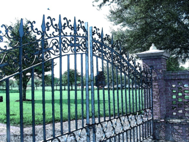 Gateswelikecolor